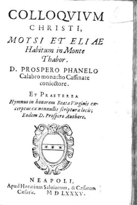 Page with title of "Colloquium Christi" book